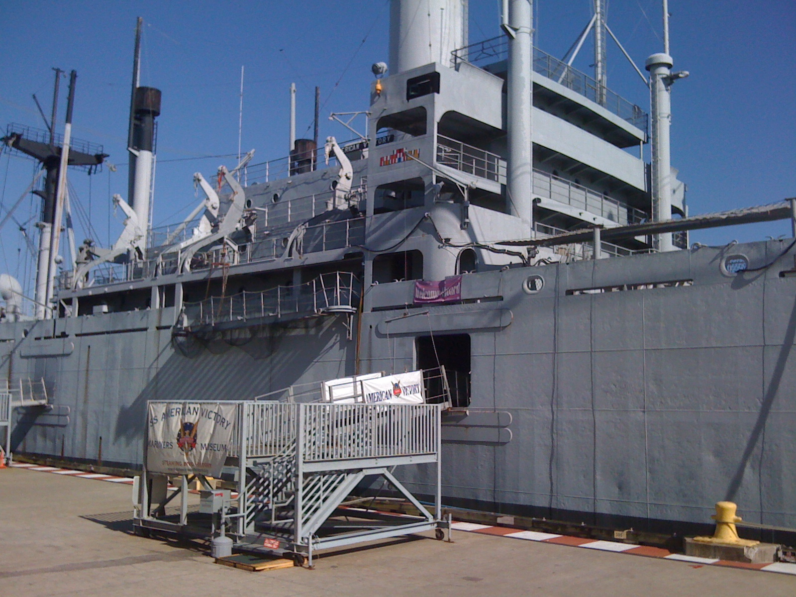 Starboard view of the SS American Victory